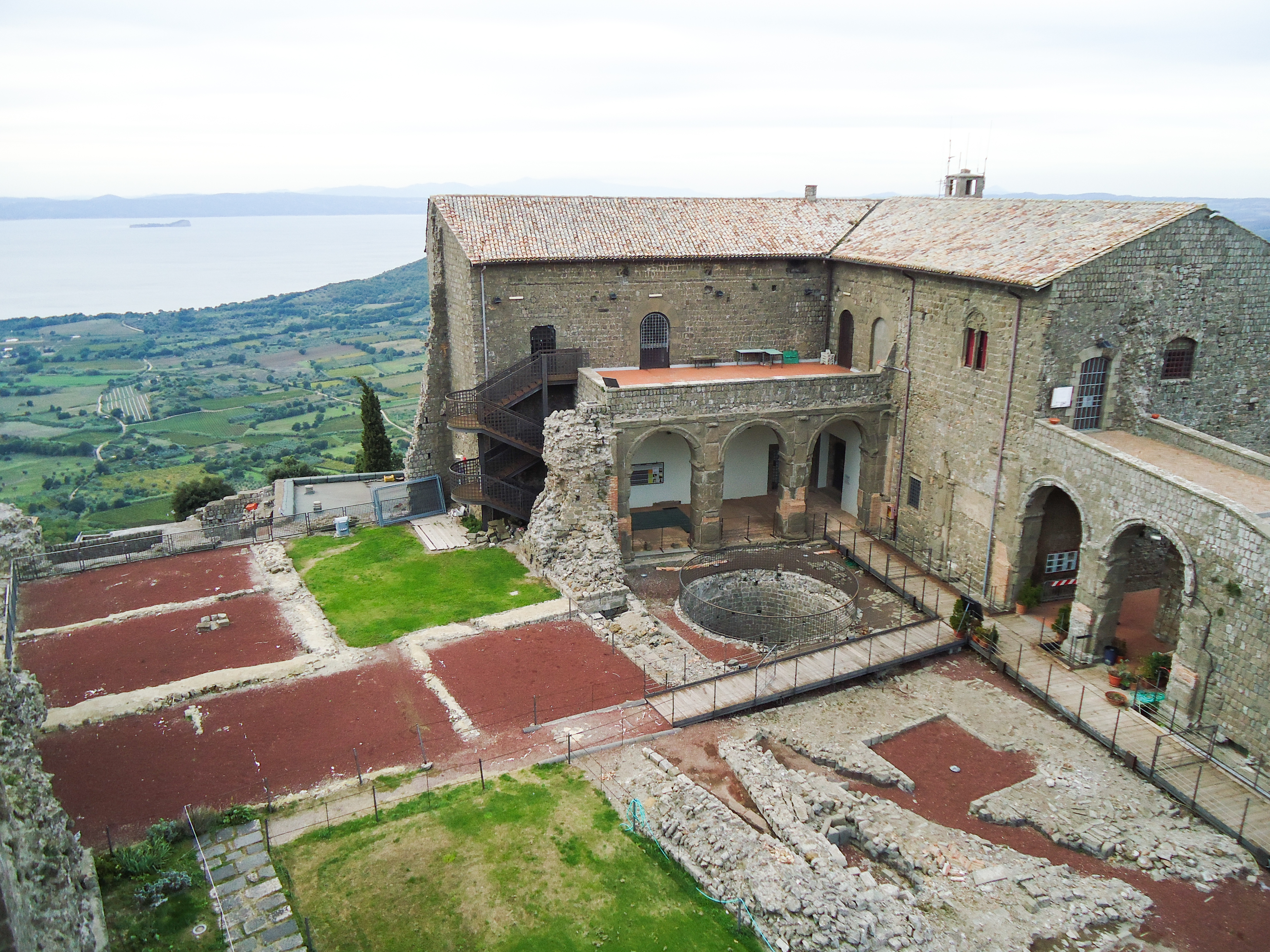 Excavations at the old papal residency atop de Rocca dei Papi, Montefiascone, one of the possible locations of the Fanum Voltumnae.